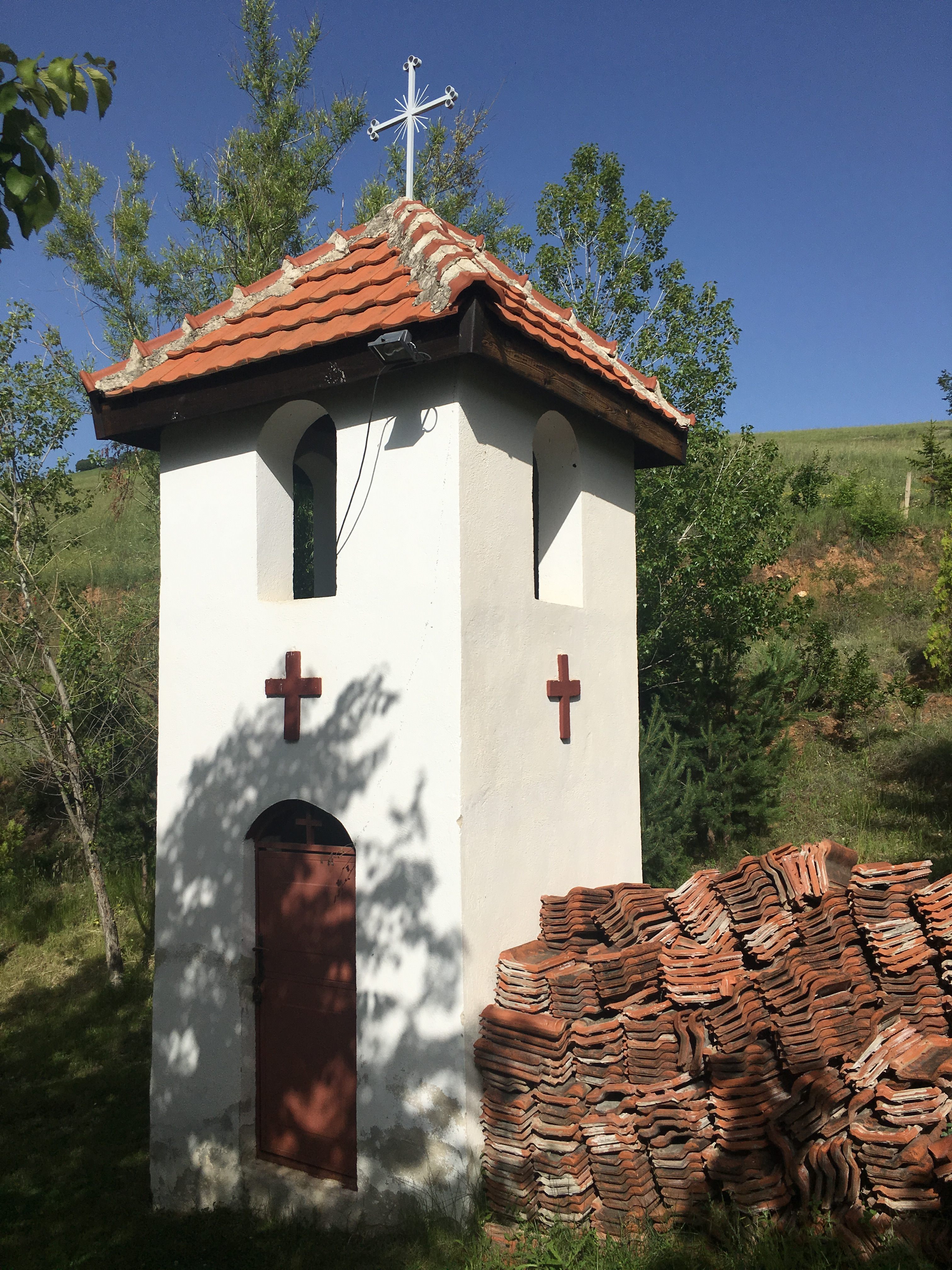 The bell tower of St. Petka Church in the village of Puturus